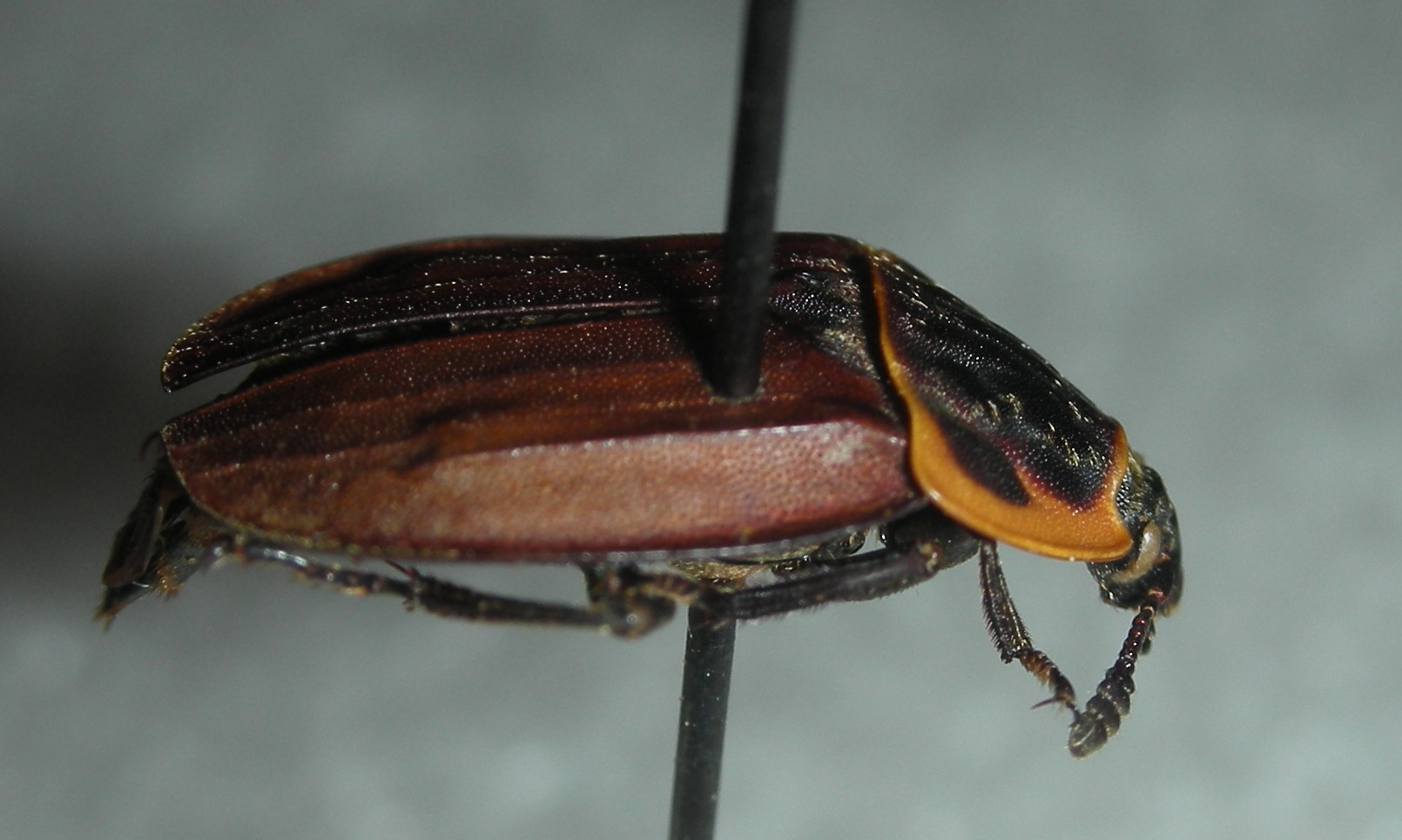 Enlarged view of Oiceoptoma noveboracense